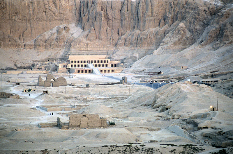 View to the temple of Hatshepsut, Deir el-Bahri, Luxor West Bank, Egypt